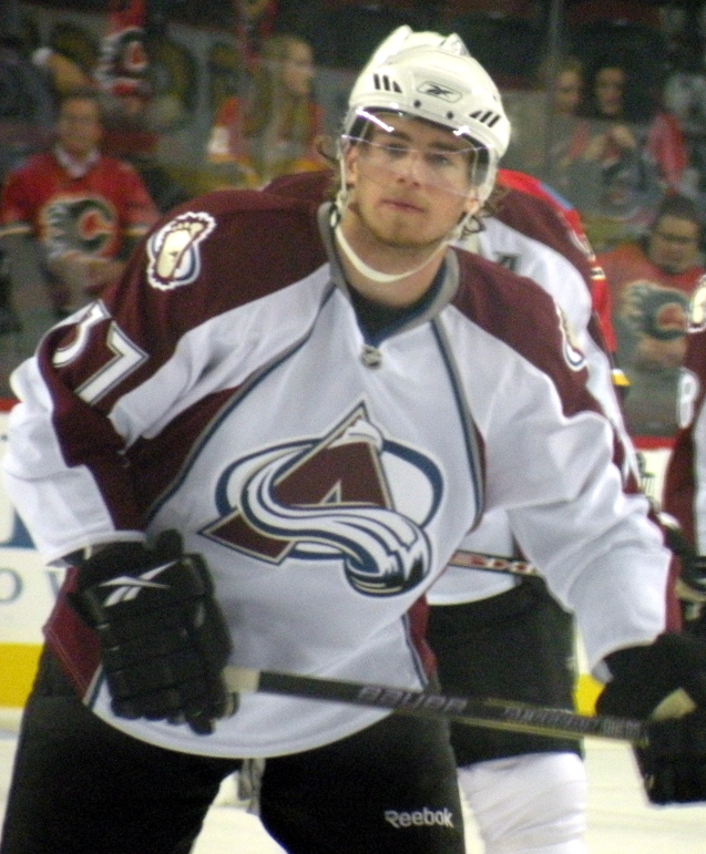 Colorado Avalanche forward Ryan O'Reilly prior to a National Hockey League game against the Calgary Flames, in Calgary.